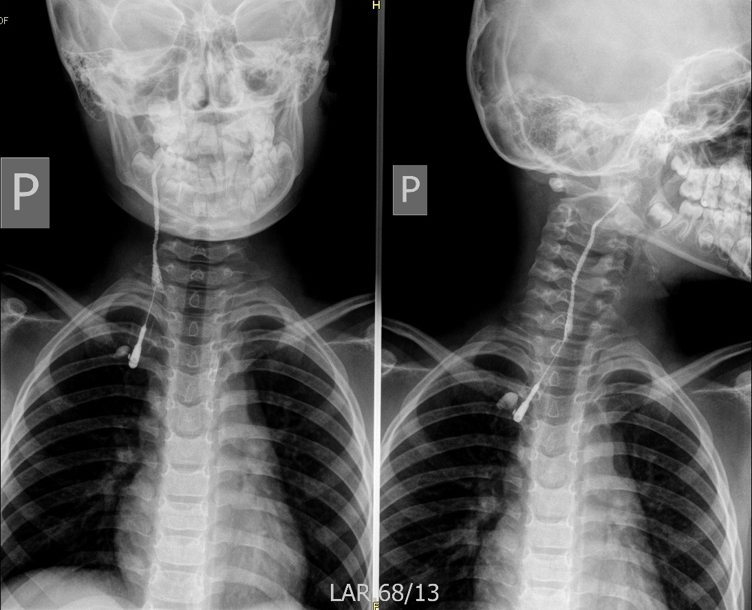 Bilateral Branchial Cleft Sinus fistulography